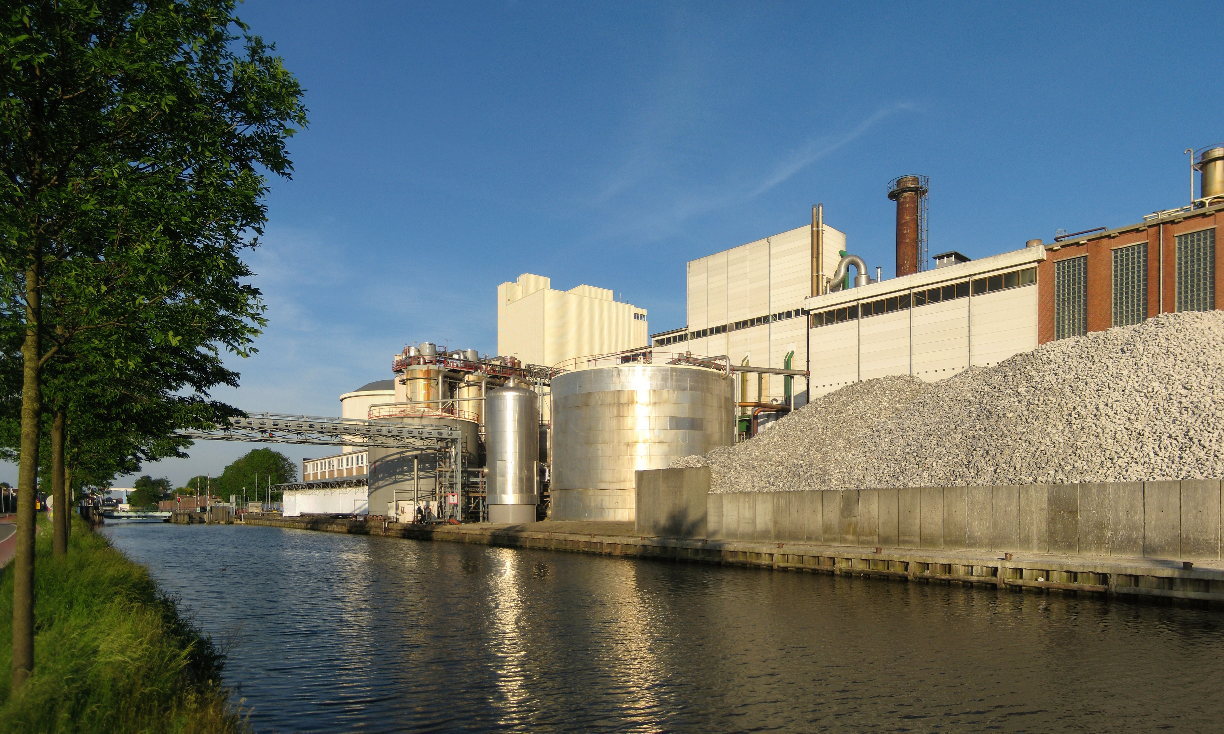 Sugar refinery of the Suiker Unie in Hoogkerk, Groningen, The Netherlands.